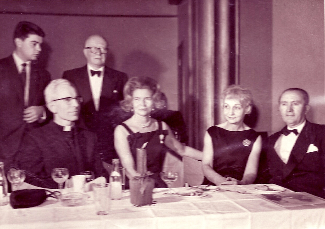 Revd Le Craurer, Marchioness De Miramon, Mad de Vial and François de Vial, French General Consul to Quebec